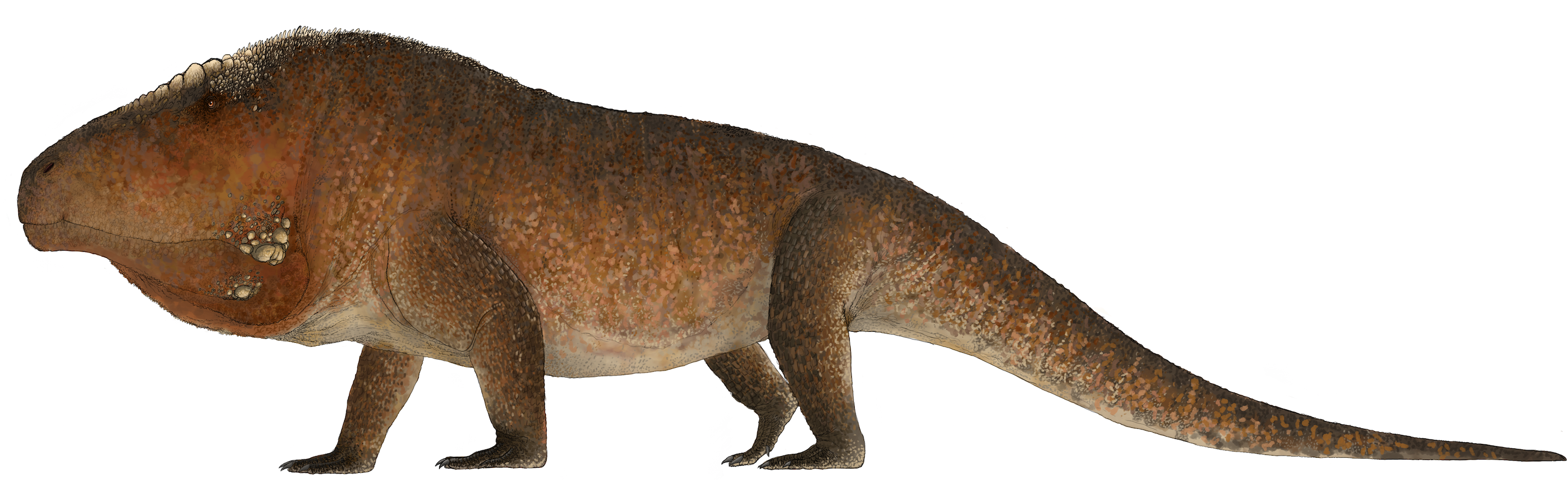 Digital reconstruction of Erythrosuchus.